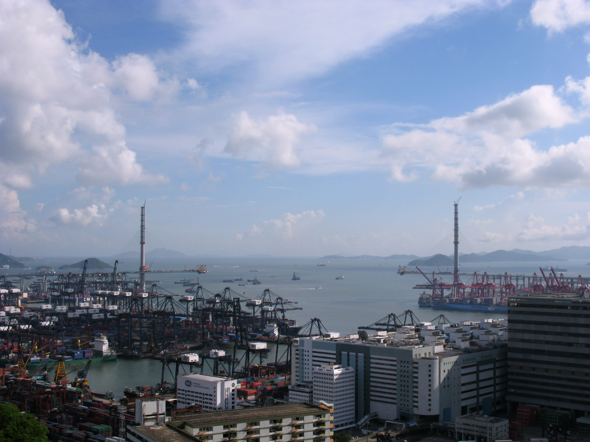 Stonecutters Bridge under construction